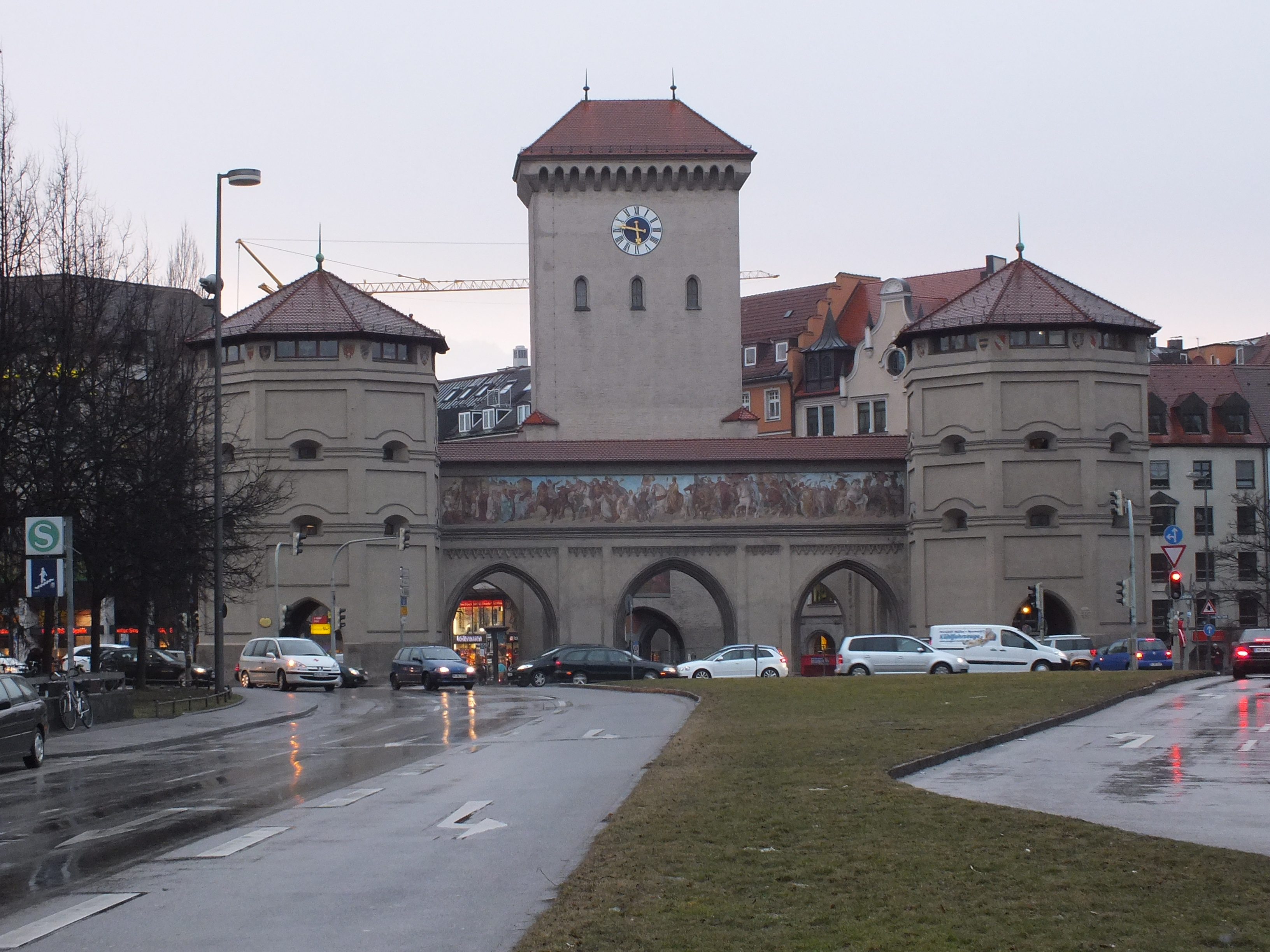 correct datetime (EXIF) should be: 2012-03-08 17:45:29